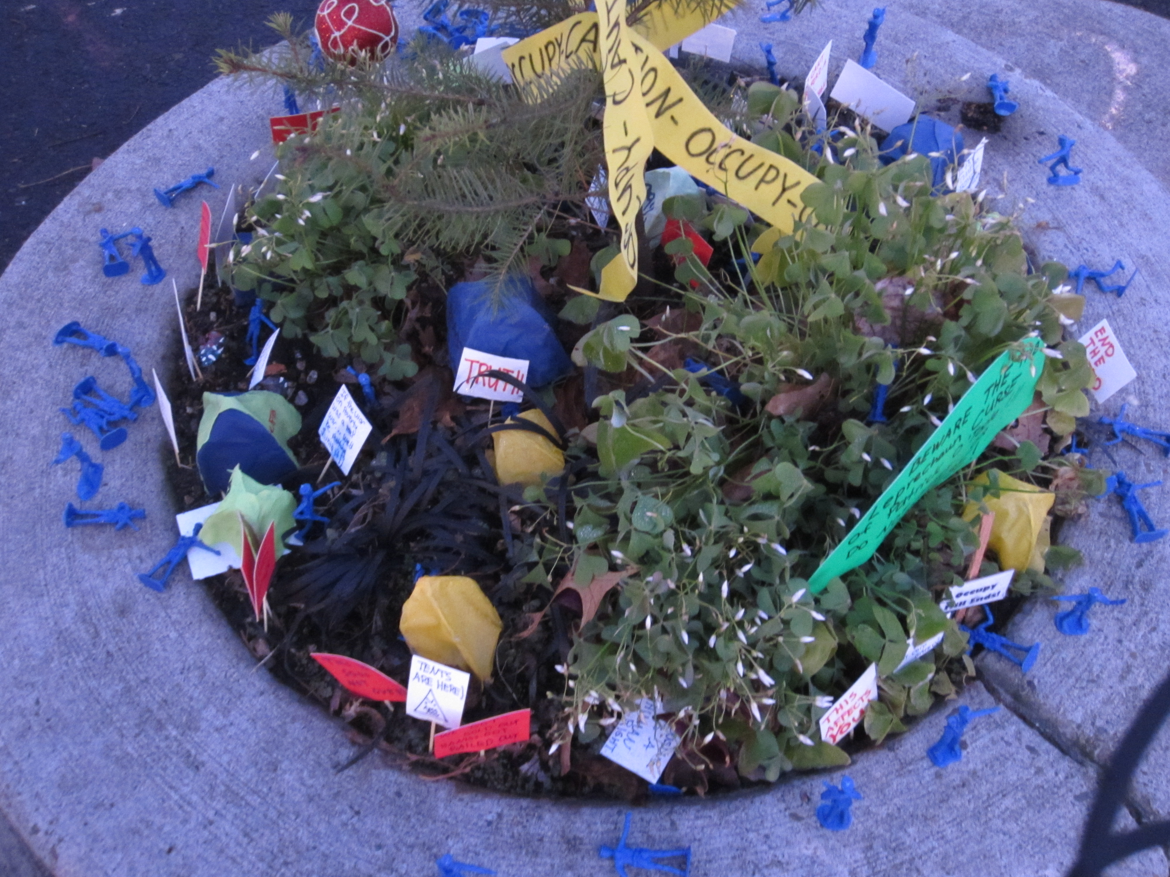 Staged "protest" as part of Occupy Portland at Mill Ends Park in downtown Portland, Oregon in December 2011